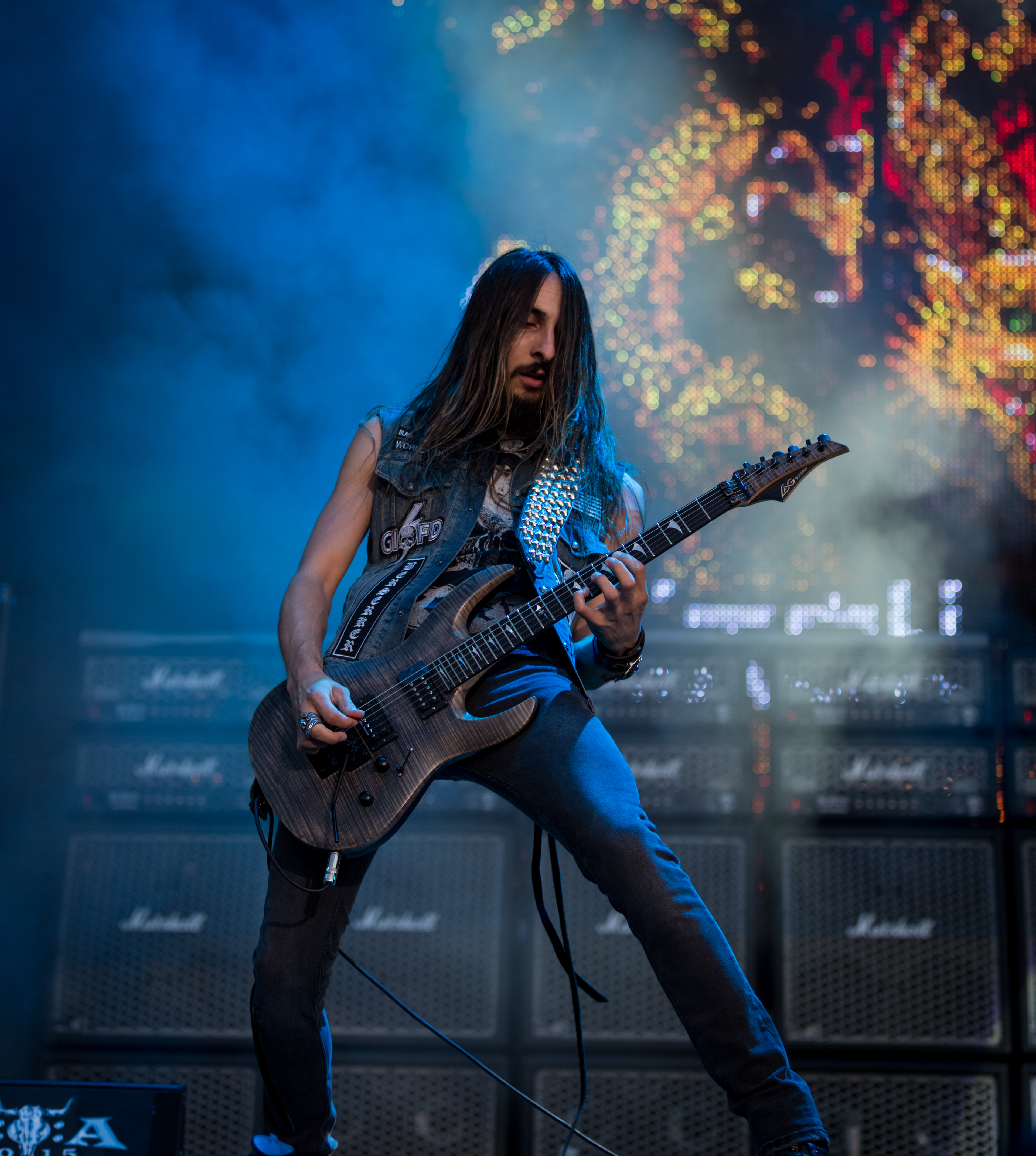 Black Label Society - Wacken Open Air 2015